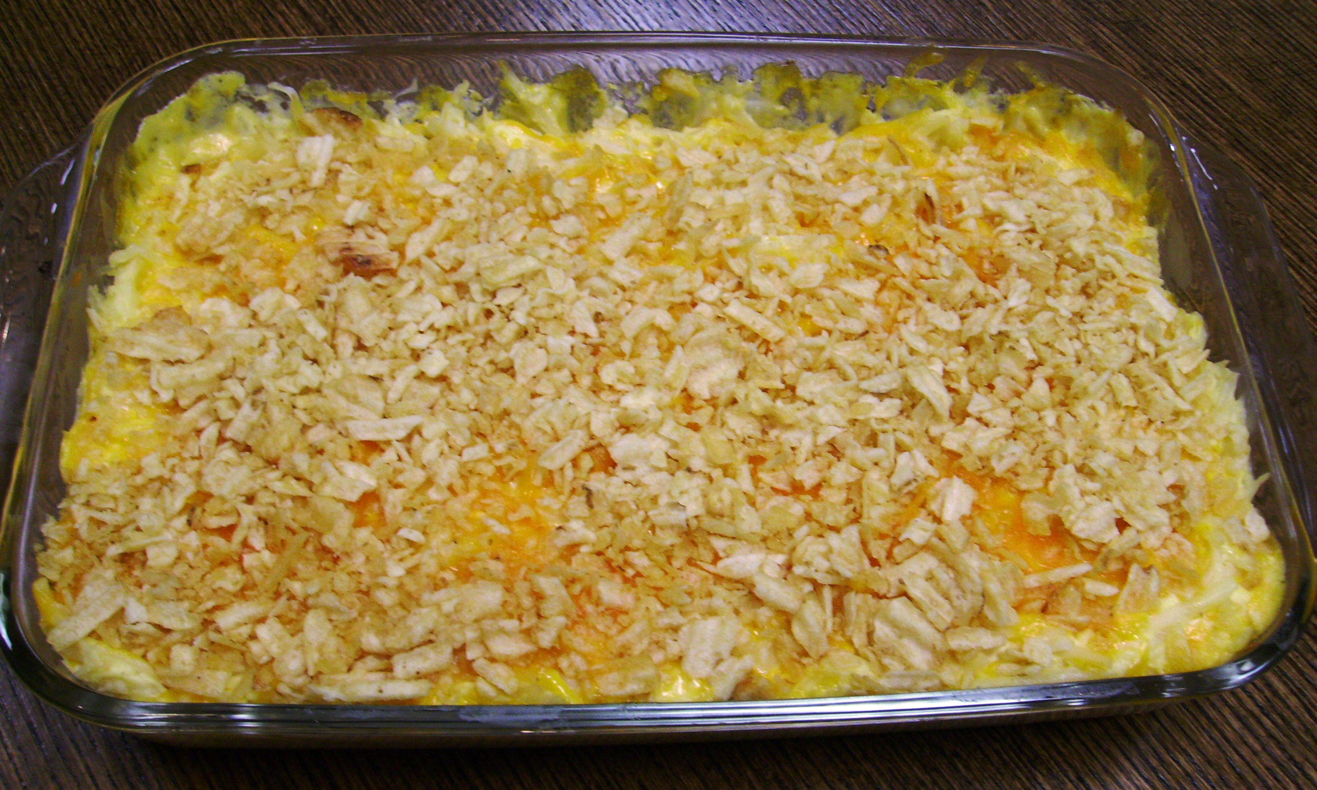 A dish of funeral potatoes